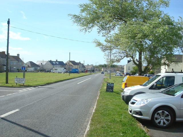 Weston Road, Portland, Dorset